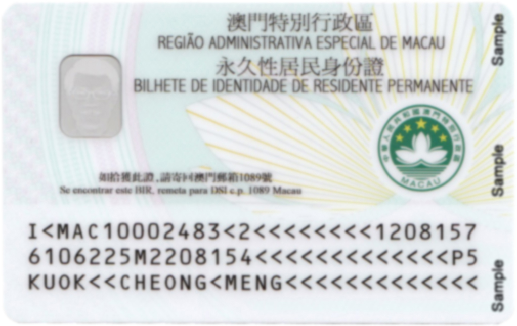 Macao SAR Electronic Identity Card 2013(Back)